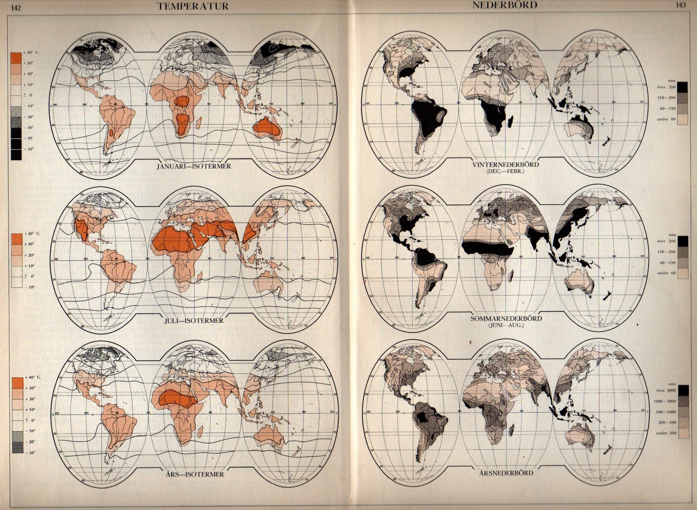 Maps of world temperature and rainfrom from the Swedish Atlas "Svensk världsatlas" 1930.